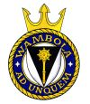 coat of arms of ENS Wambola